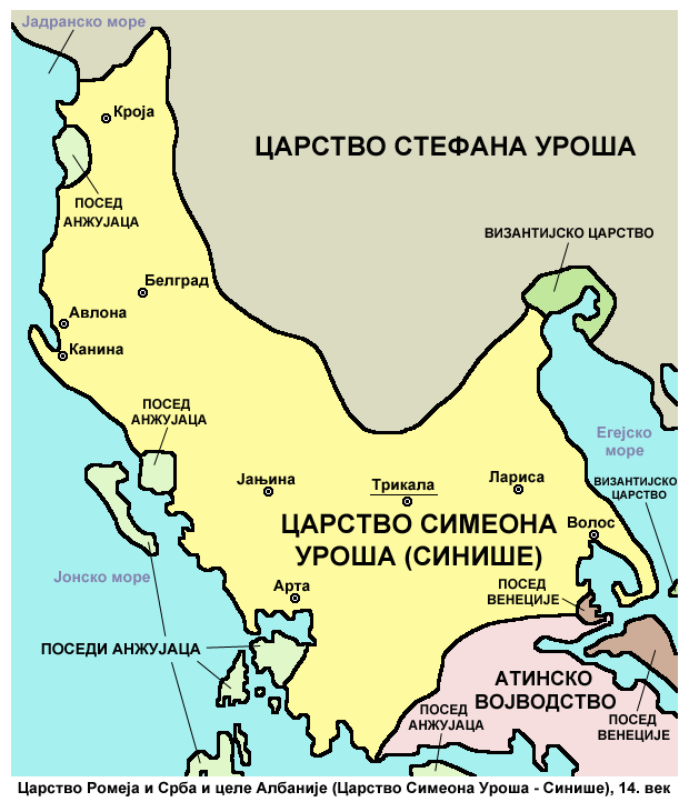 Empire of the Romans (Greeks) and Serbs and whole Albania (Empire of Simeon Uroš - Siniša), 14th century.